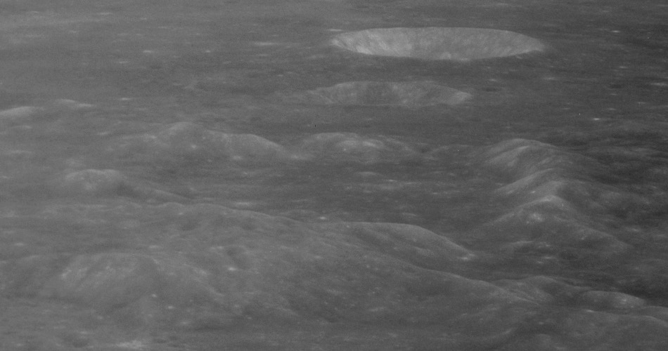 Oblique view of D'Arrest crater, facing north, on the moon.